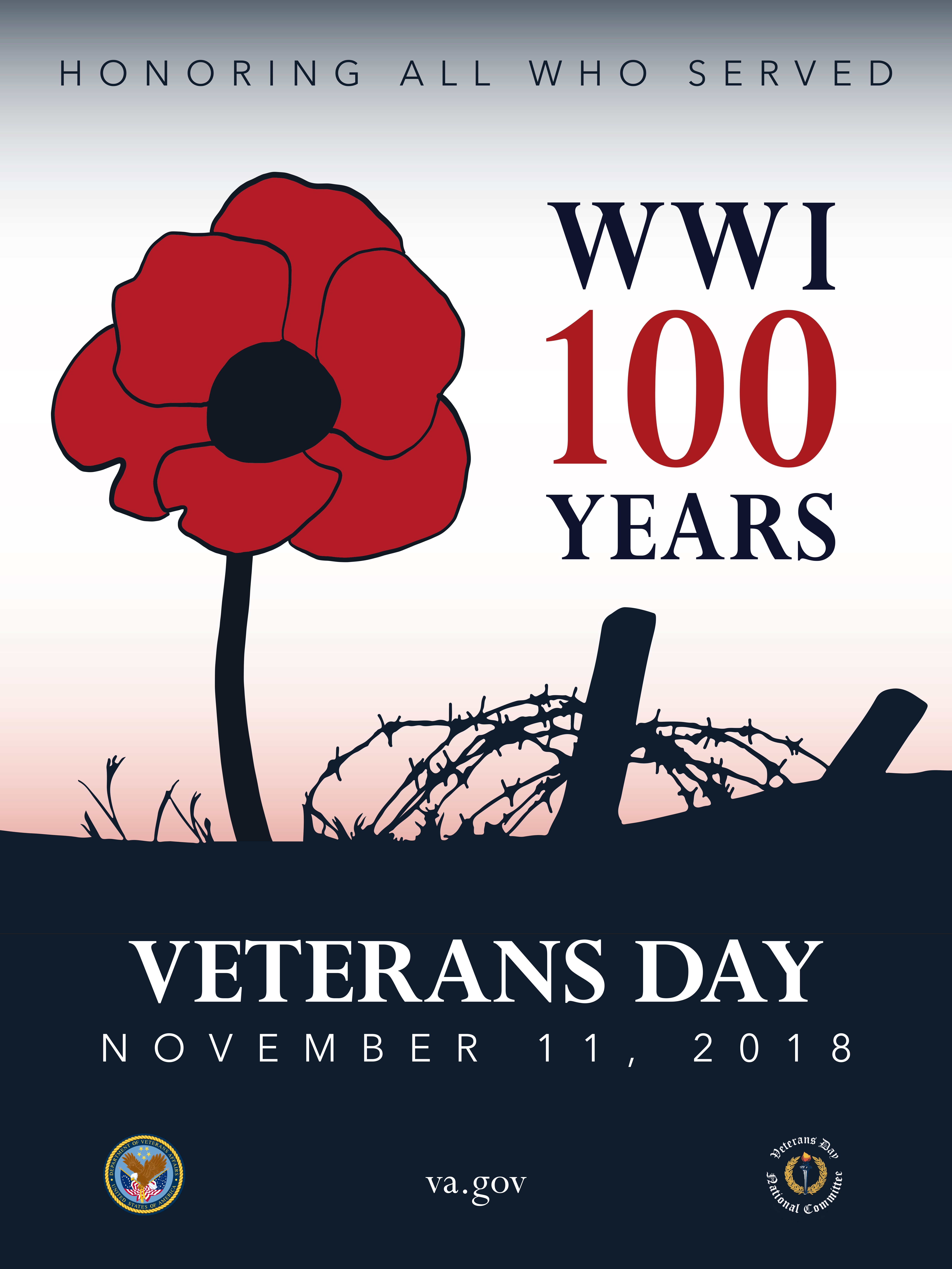 Poster for Veterans Day 2018, commemorating the 100th anniversary of the end of World War I